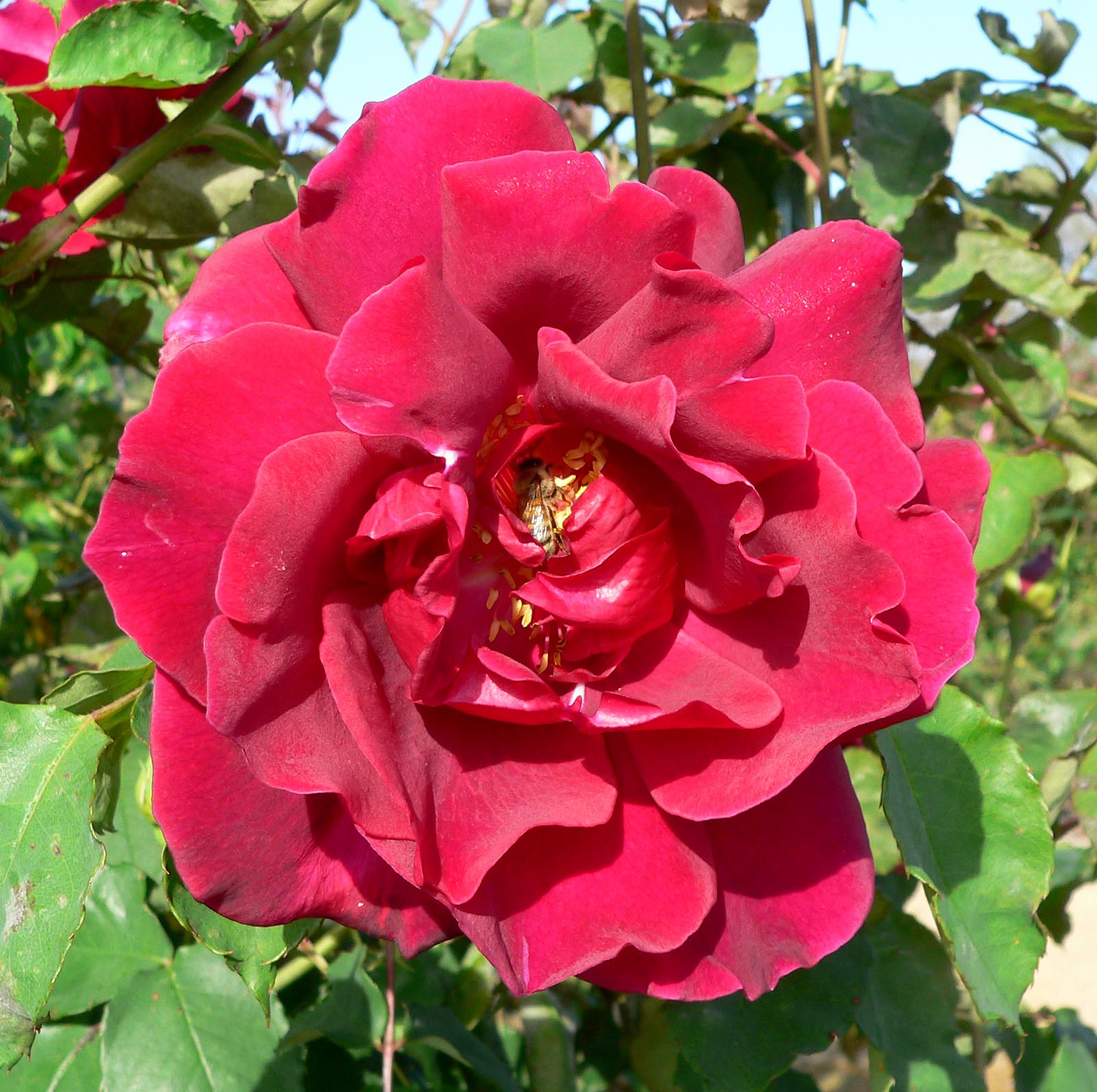 Photo of Rosa 'Etoile de Hollande' at the San Jose Heritage Rose Garden